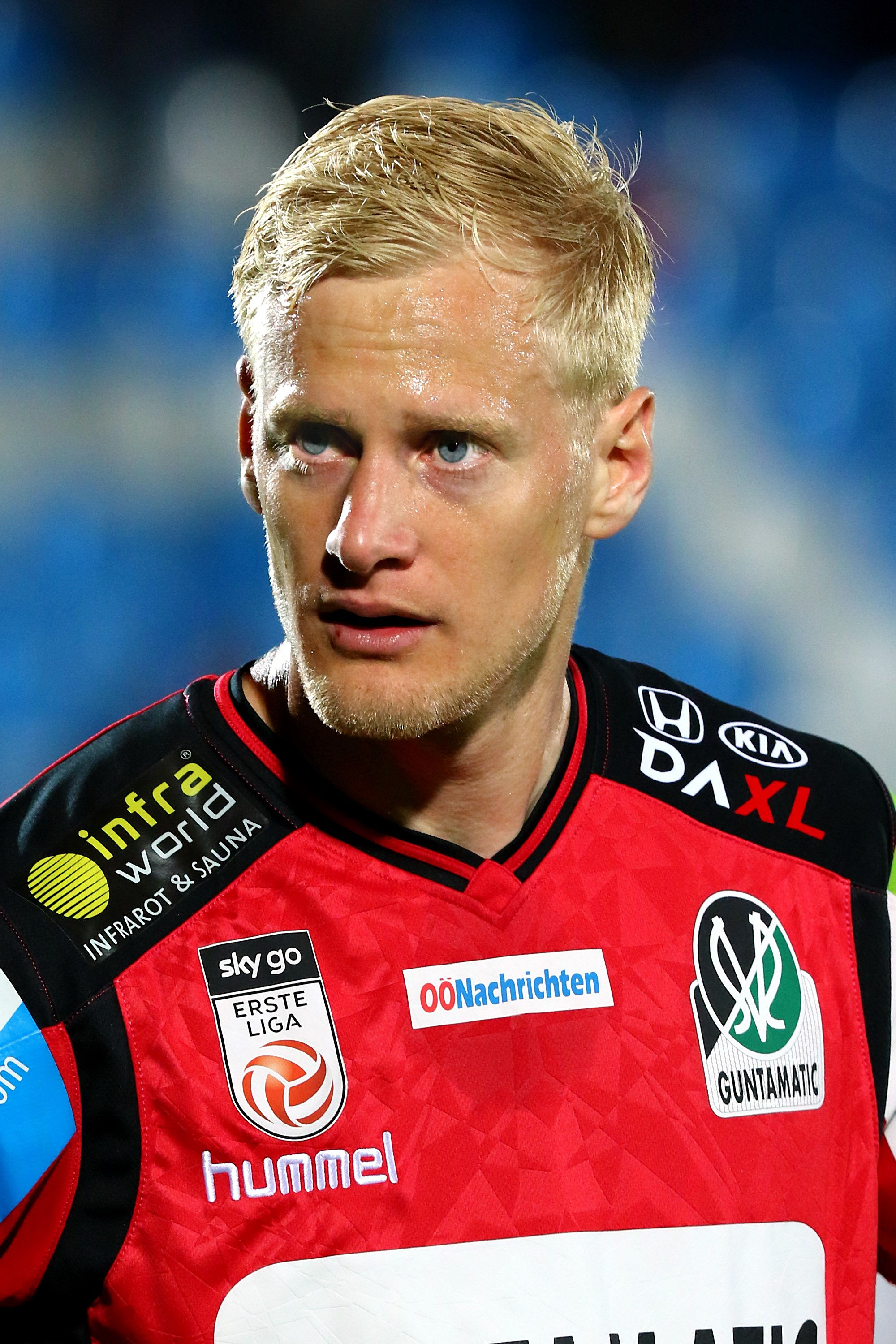 Football-championship Erste Liga 2017–18 - SC Wiener Neustadt (white shirts) vs. SV Ried (red shirts) 1-0. – The photo shows Thomas Fröschl